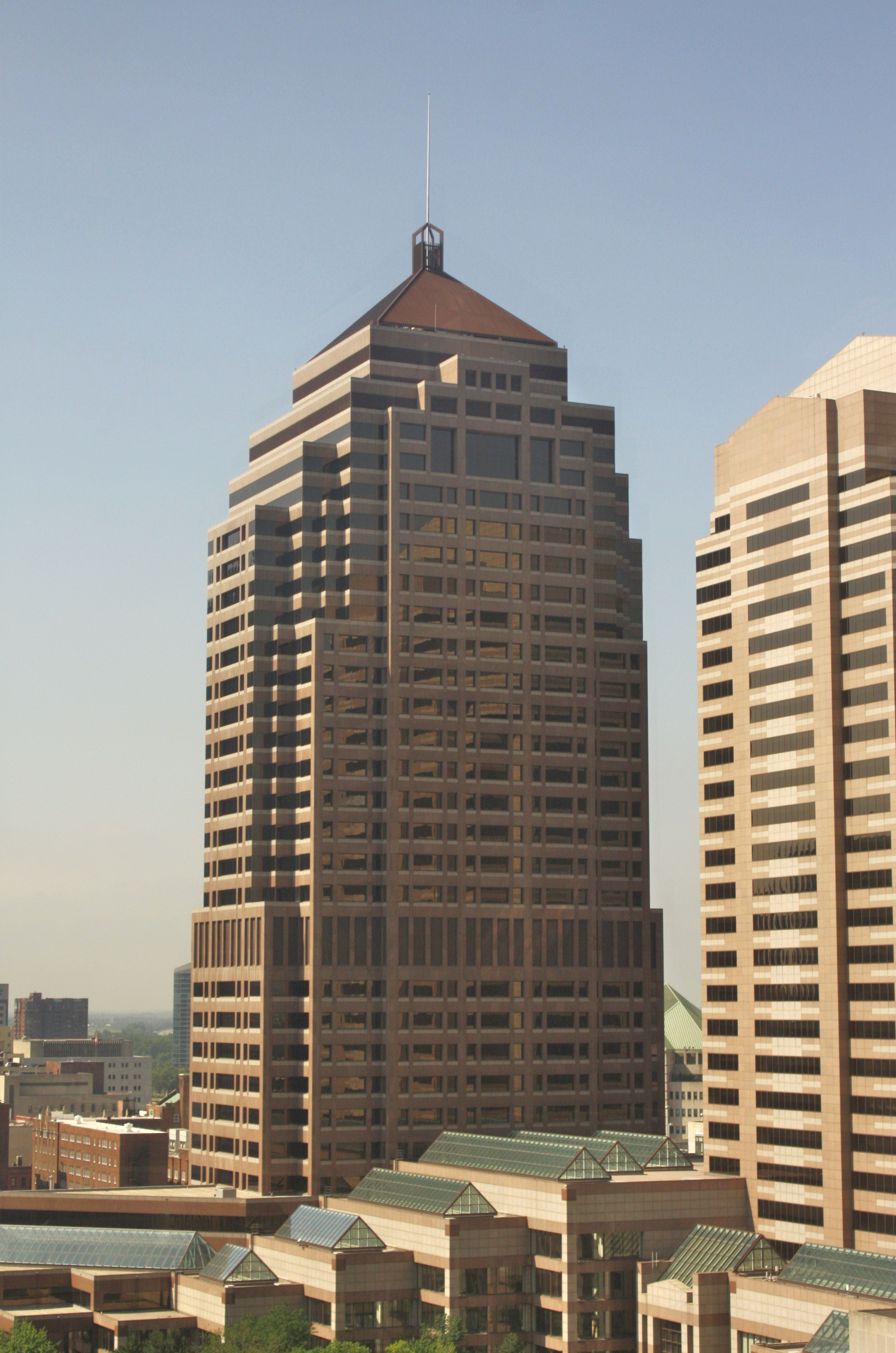 William Green Building (left), Columbus, Ohio (Three Nationwide Plaza is partially visible on the right). View from the downtown Hyatt Regency.